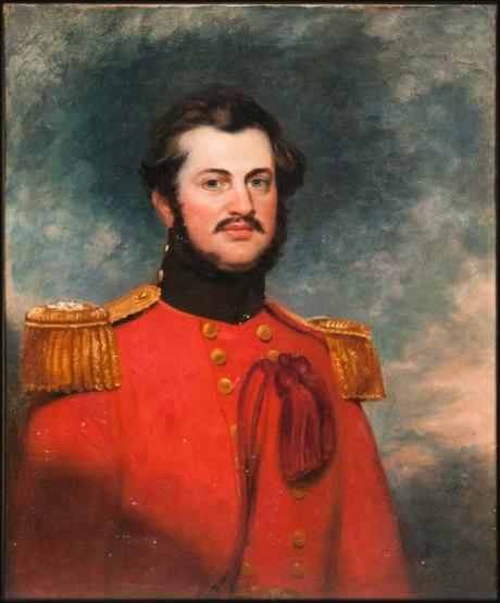 Major General Sir Andrew Scott Waugh (1810-1878) painted by George Duncan Beechey, 1798 - 1852